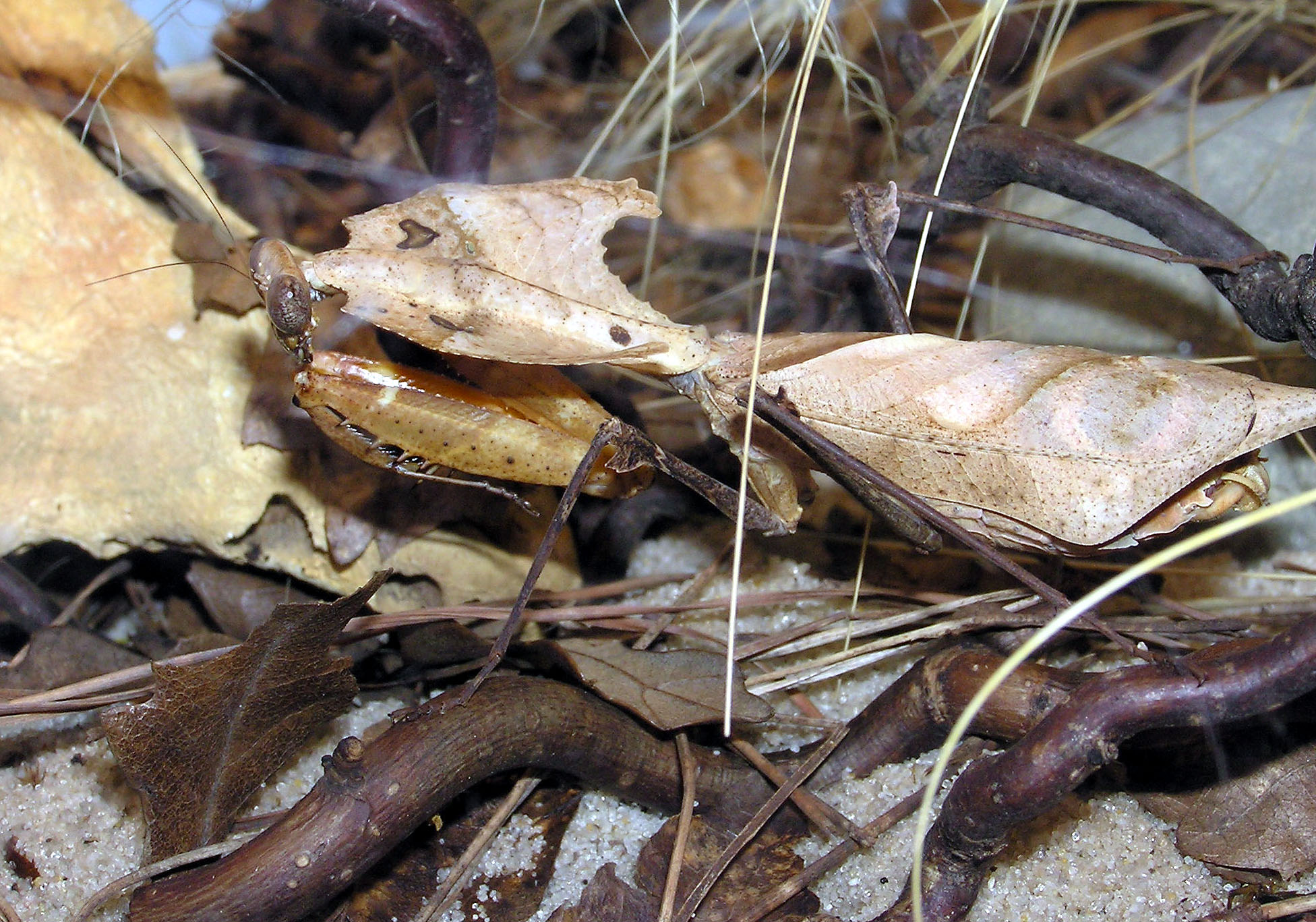 Dead leaf mantis (Deroplatys desiccata) at Bugworld in Bristol Zoo, Bristol, England. If alarmed it lies motionless on the rainforest floor, disappearing among the real dead leaves. It eats other animals up to the size of small lizards. From the island of Madagascar, Africa.